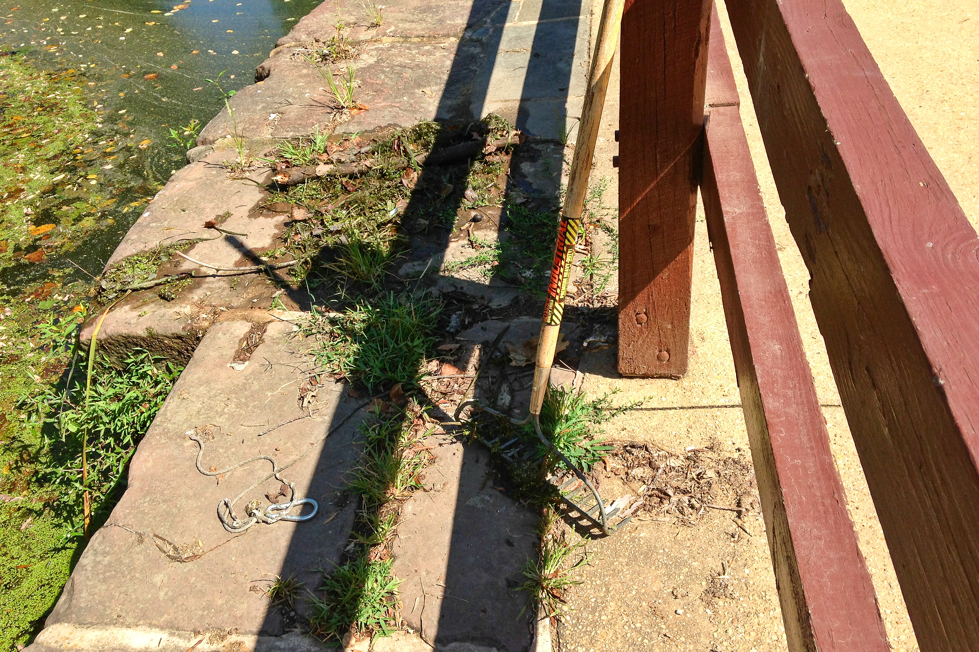 Rake that lockkeepers use to take the trash out of the lock, so that the gate can open. Historically the lockkeepers also had a long pole if something got stuck in the wicket and needed to be cleaned so they could close it.